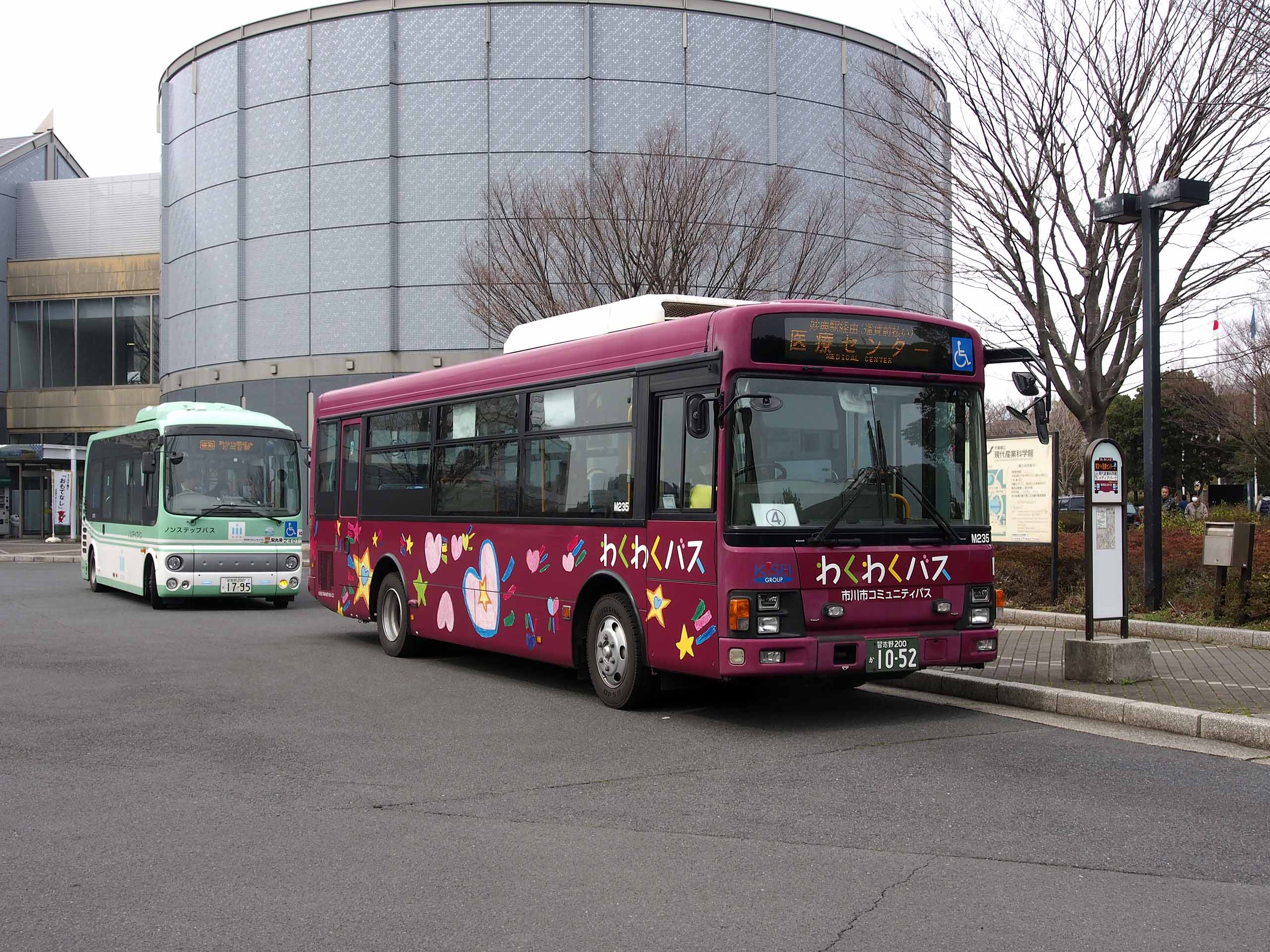 Two Ichikawa City Community Buses, stopping at Chiba Museum of Science and Industry. Forward: Keisei Transit Bus M235 "Wakuwaku Bus" for Myoden Station and Tokyo Bay Medical Center Model: Isuzu Erga Mio PDG-LR234J1 License plate: CBN200 KA1052 Aft: Keisei Bus 2401 "Nashimaru-go" for Ichikawa-ohno Station and Matsuhidai Station Model: Hino Poncho HX License plate: CBN200 KA1795